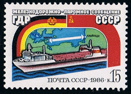 Railway ferry Mukran-Klaipėda (East Germany-USSR)